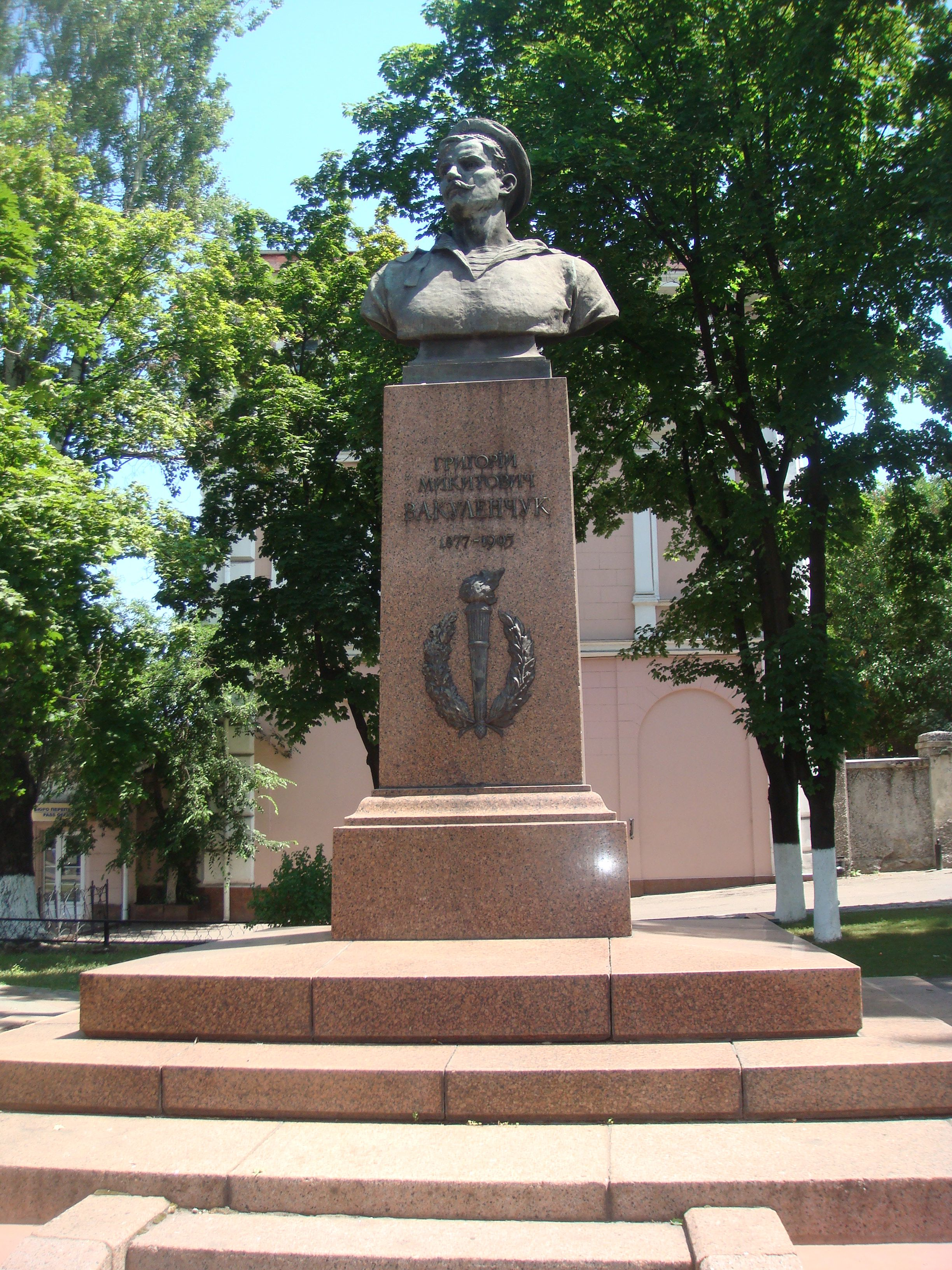 Monument to sailer of Russian Imperial Navy Grigory Wakulenchuk, who leaded mutiny on battleship Knyaz Potemkin, killed an officer of the ship and was killed himself in a fight.